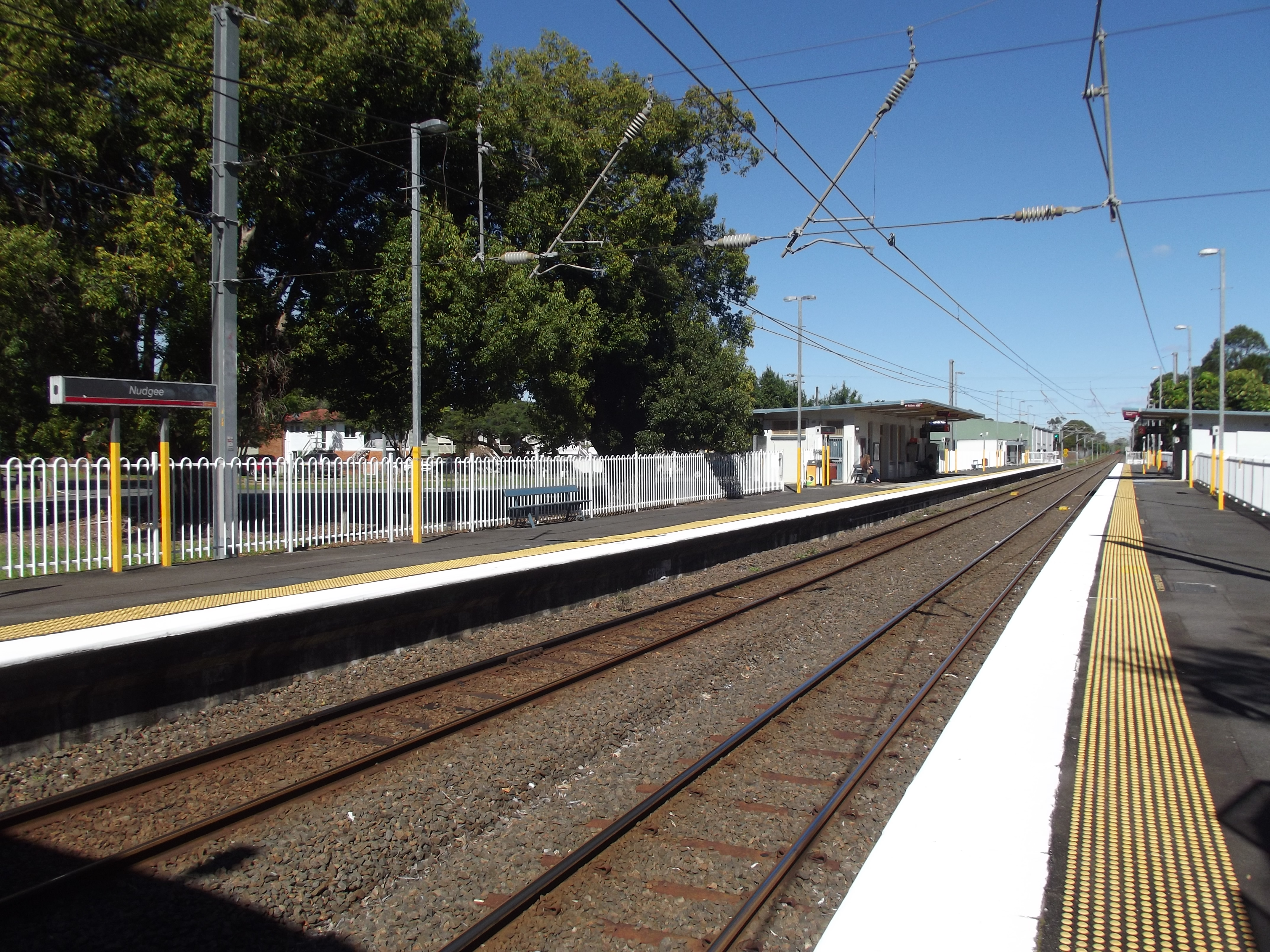 A photo of the Nudgee railway station, operated by TransLink, located in Brisbane, Queensland.